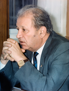 Photo of Vasily Dinkov